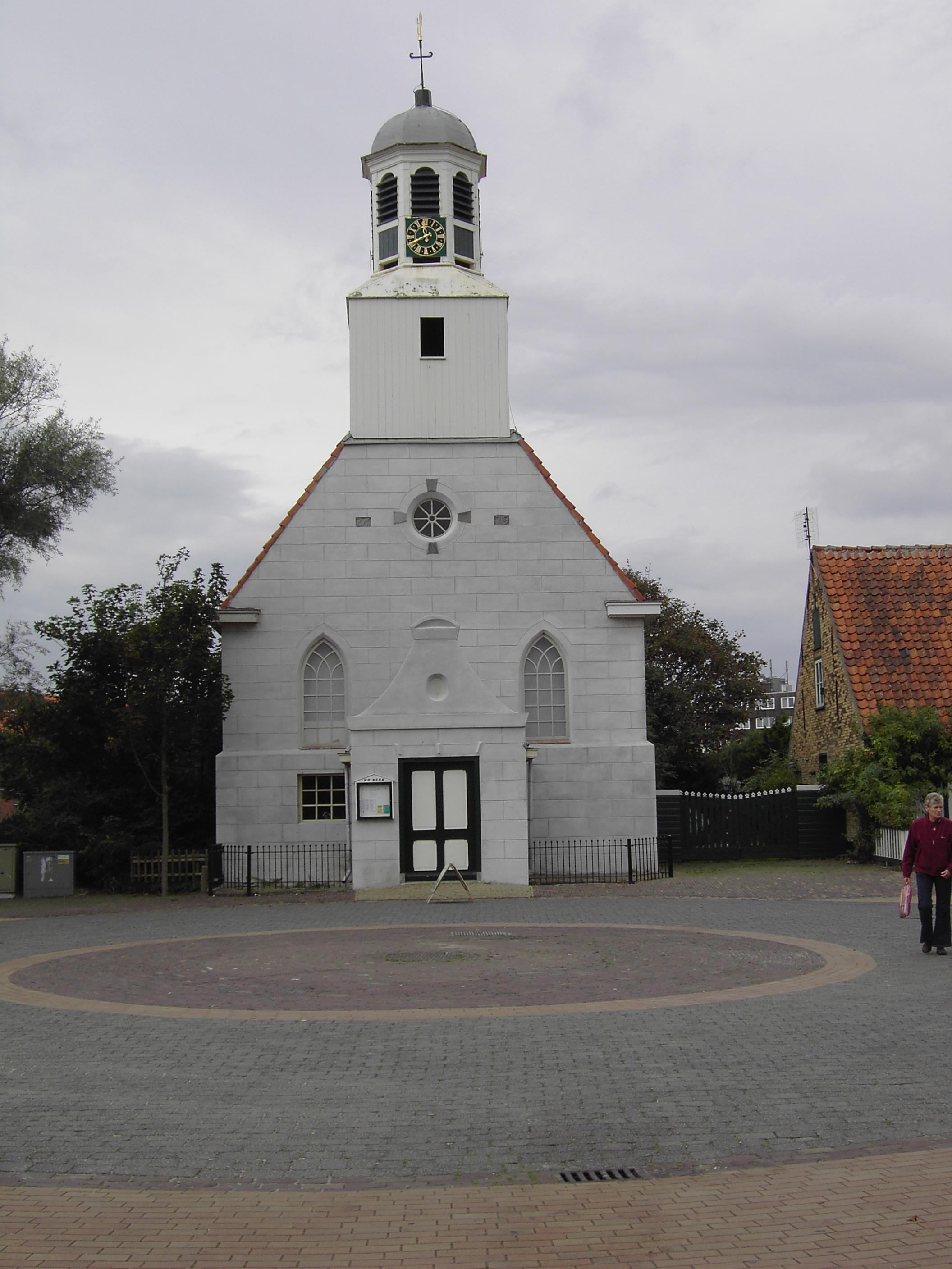 The only church in De Koog, on the island Texel (Netherlands)